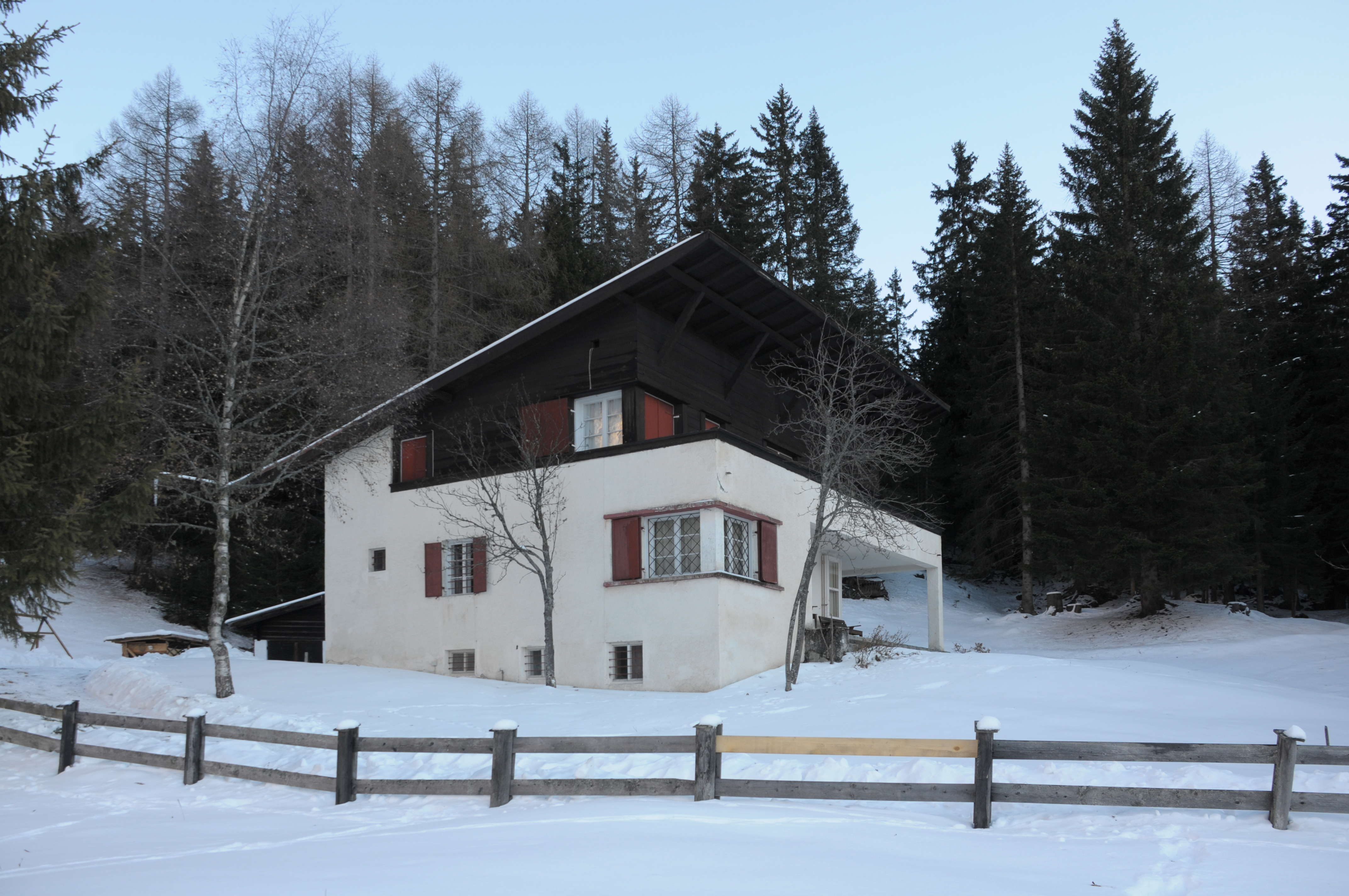 Villa Fossi in Sëlva Gherdëina 1933